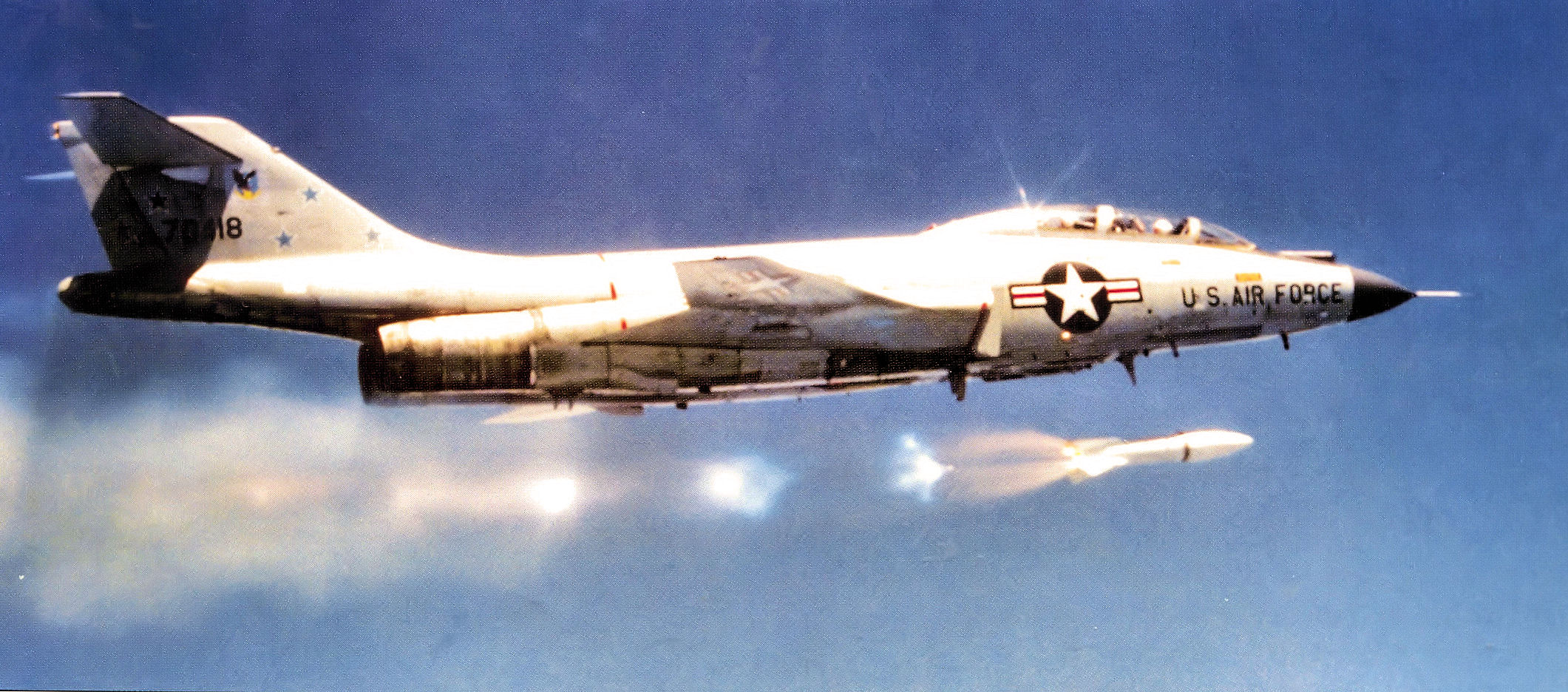 2d Fighter-Interceptor Squadron McDonnell F-101B-100-MC Voodoo Suffolk County Air Force Base, New York, 1965 firing an MB-1 Genie Air to air missile. 418 to Canadian Armed Forces as 101053 in 1970/71. Now on display at CFB Chatham, New Brunswick as 101053.